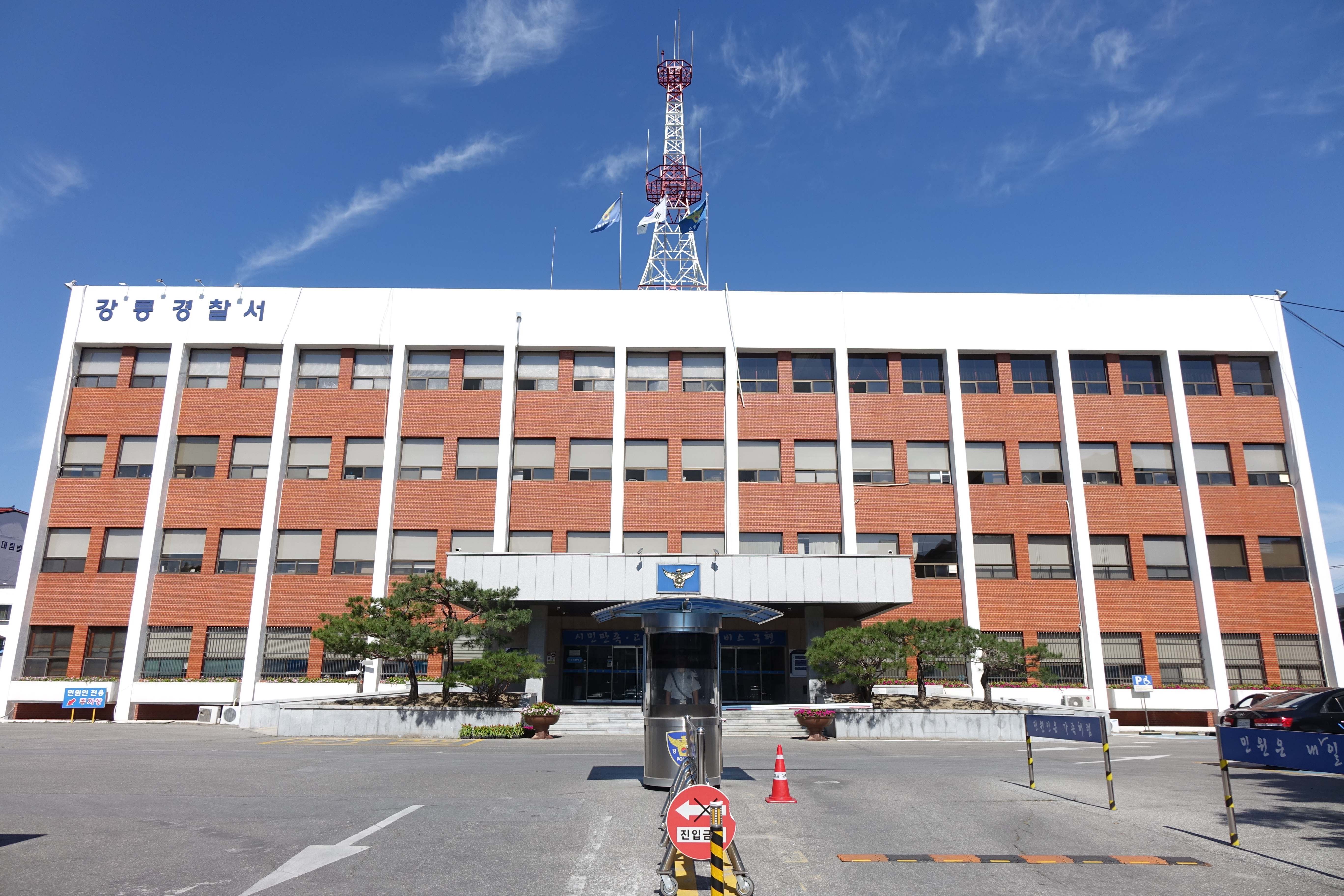 본 저작물을 'CC0 1.0 보편적 퍼블릭 도메인 기증' 저작권으로 배포합니다. 사진에 대해 궁금하신 점이나 원본 파일(ARW)을 원하시는 분은 여기로 연락주세요. 감사합니다. 2015년 10월 4일. 최광모.